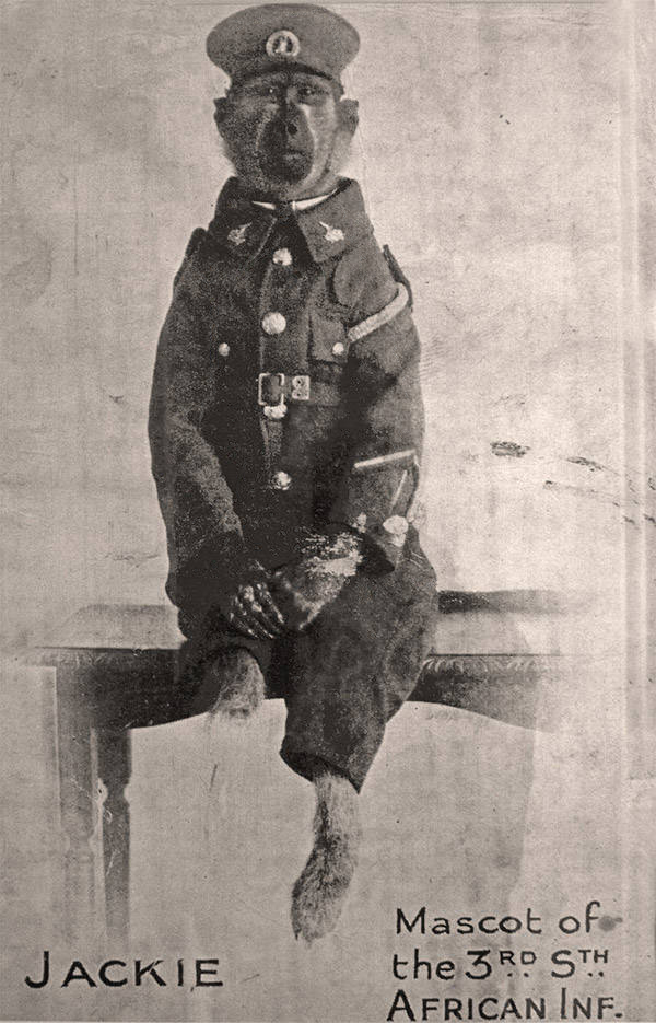 Jackie (born before 1915, died 1921) was a baboon who accompanied the South African army during the First World War and was injured repeatedly being shot in the shoulder and blown up such that he lost leg. He was given a Pretoria Citizen’s Service Medal and listed as a corporal. He died at home in a fire less than a year later.